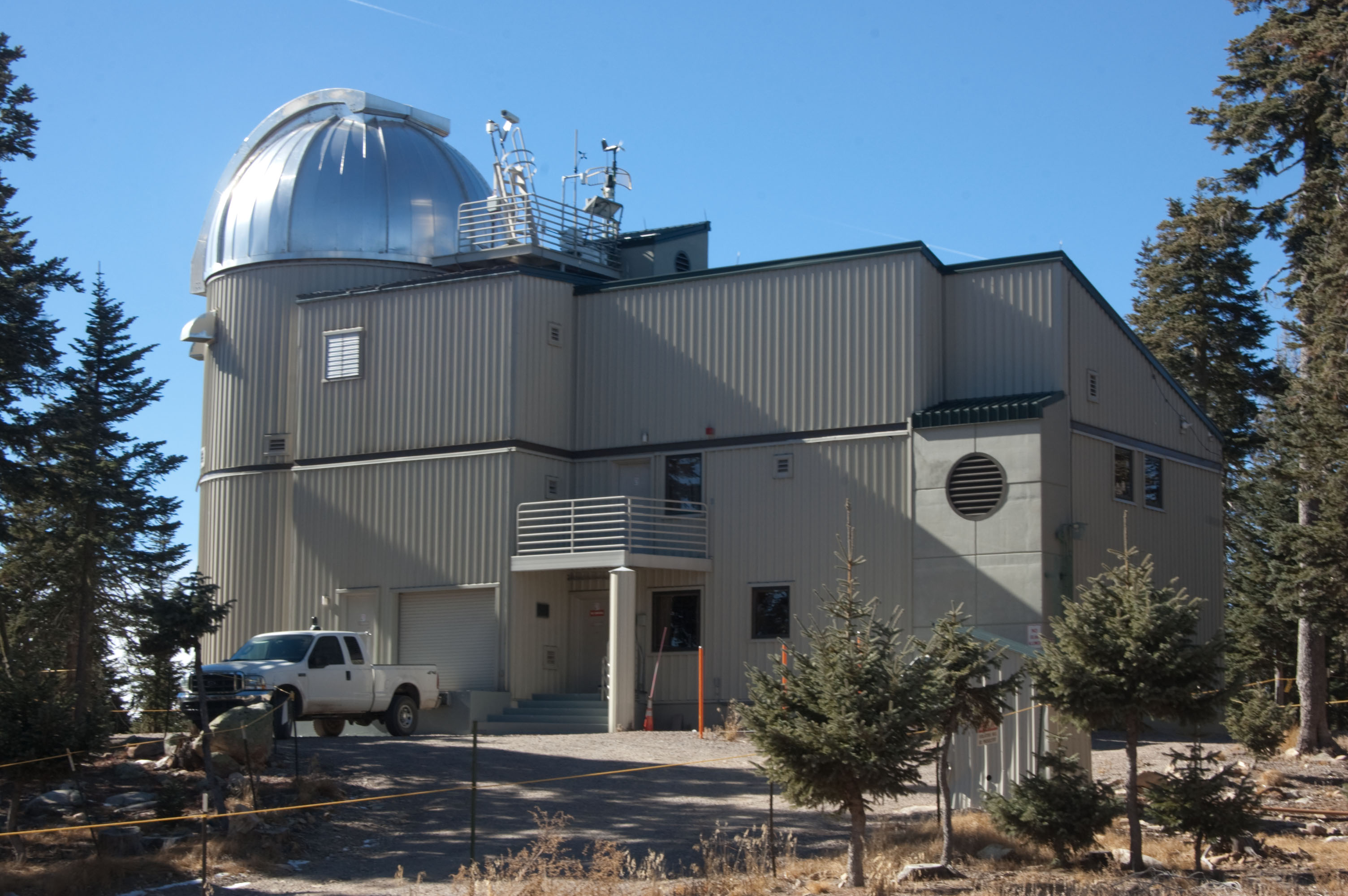 The Vatican Advanced Technology Telescope (VATT), the main telescope of the Vatican Observatory. The dome to the left houses the telescope itself; the space to the right are the control room and the living space for the observers.